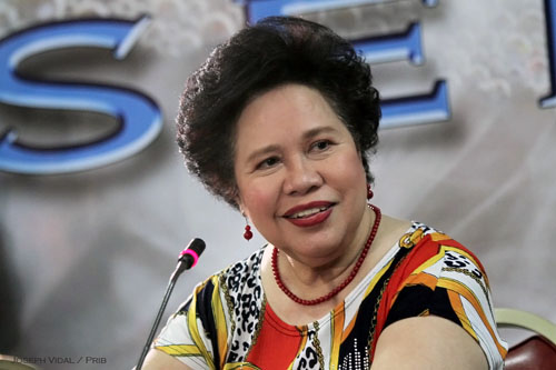 Senator Miriam Defensor Santiago talks about her priority bills during the weekly Kapihan sa Senado. Santiago said that bills such as the Reproductive Health Act which aims to guarantee universal access to methods and information on birth control and maternal care, the Anti-EPAL Bill which prohibits public officials to affix their name or image to any signage on a proposed or ongoing public works project, and the Act against the commercialization of human organs, should be given priority once the 3rd Session of the Fifteenth Congress starts.